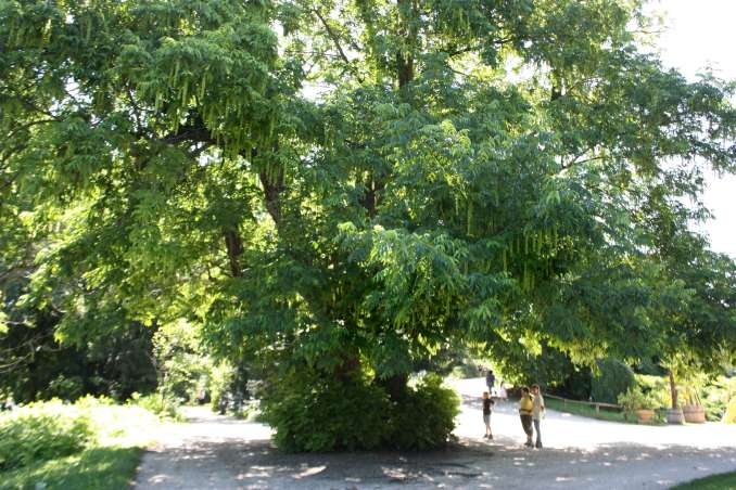 Lednice na Moravě, Czech republic, english park